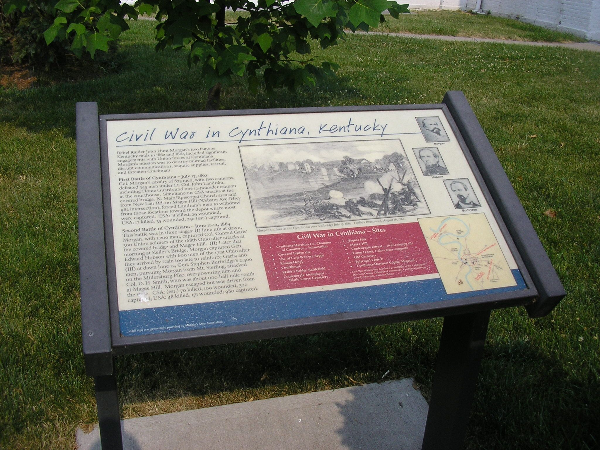 Battle of Cynthiana marker in Harrison County, KY